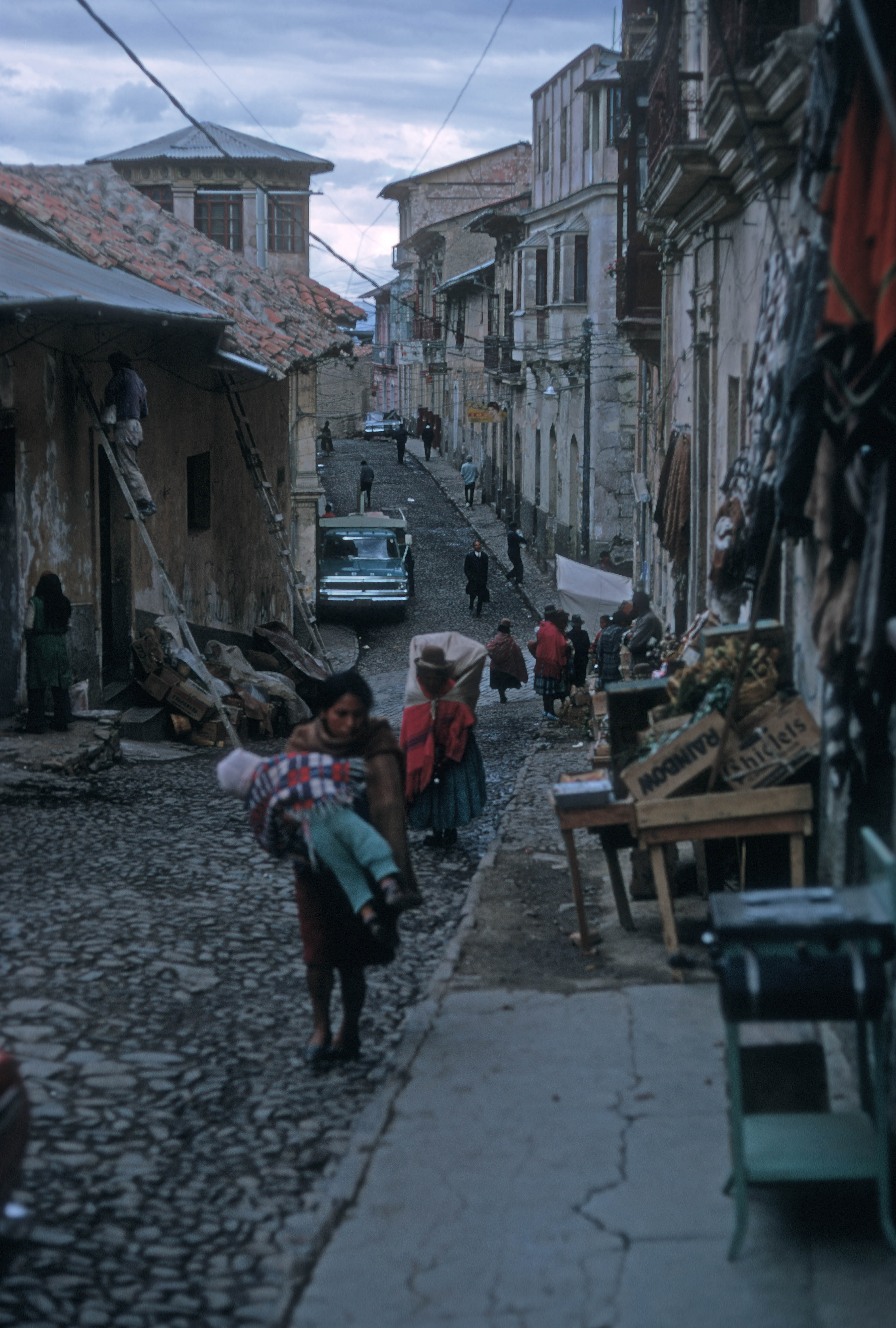 THIS IS THE PLACE WHERE EXOTIC ITEMS ARE SOLD